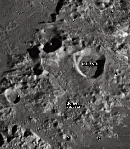 Calippus lunar crater as seen from Earth with satellite craters labeled